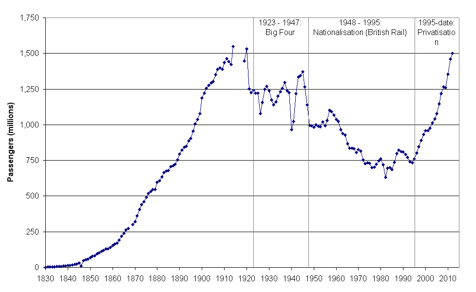 Image produced by myself in Microsoft Excel. Tompw Tompw (talk) (en) 19:17, 9 December 2012 (UTC) The data comes from: ATOC's 2008 publication Billion Passenger Railway for 1830 to 2001 The UK Office of Rail Regulation (ORR), specifically Passenger journeys by sector - table for 2002 onwards. The plotted data is the sum of the "Total franchised passenger journeys" and "Non franchised" columns From 1984 onwards, the point plotted at a given year is actually the last three quarters of the year given and the first quarter of the year afterwards. So, the point at "1985" is the year from April 1985 to March 1986.